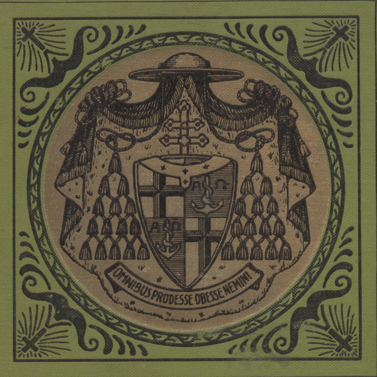 coat of arms, of Cardinal Antonius Fischer, cologne